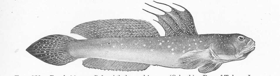 Pond-skipper, Boleophthalmus chinensus (Osbeck). Bayt of Tokyo, Japan. (Eye-stalks sunken in preservation.) Subject: Boleophthalmus Tag: Fish